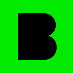 Beme's logo